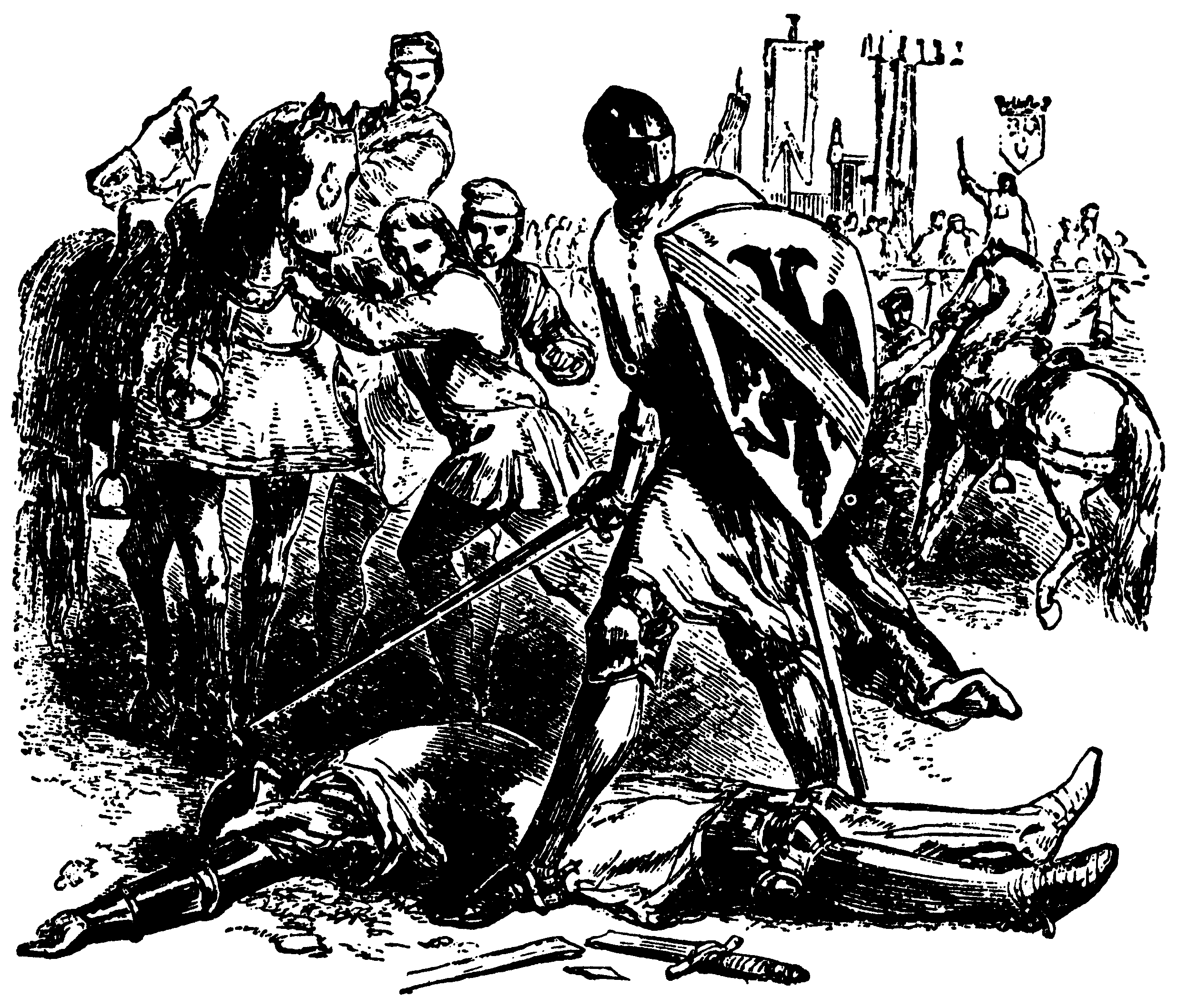 Fight between Bertrand du Guesclin and William Troussel